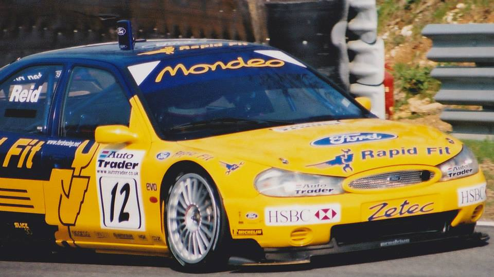 Anthony Reid BTCC 2000 Brands Hatch